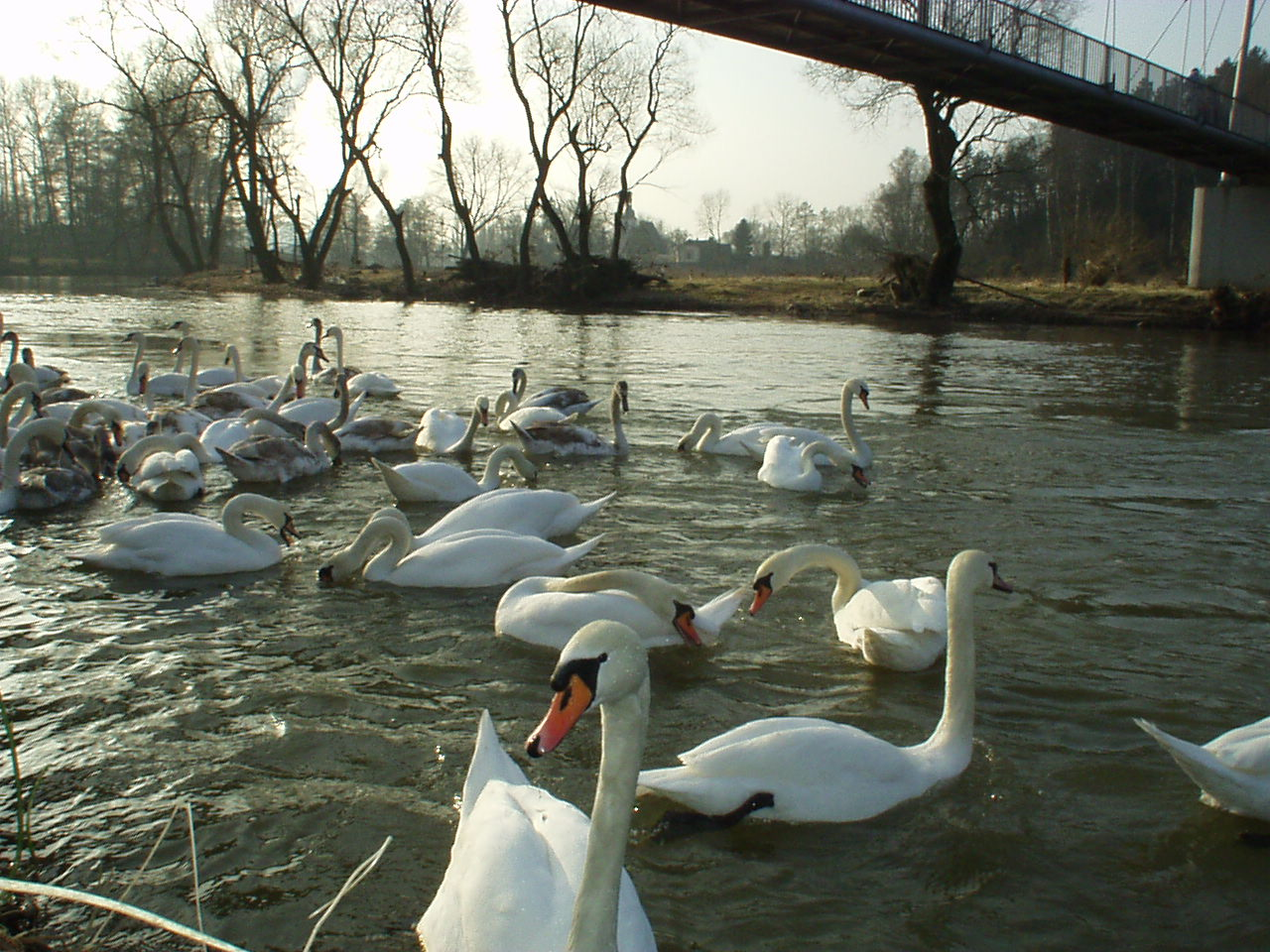 Swans wintering site on the Upper Berounka close to the St.George church in Plzeň